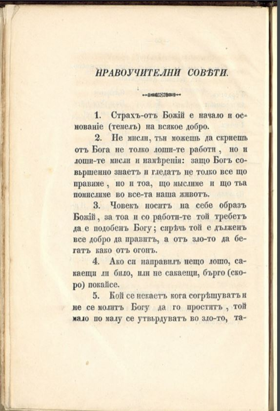 This is a scan from the book "Primer for the little children" printed in 1858 in Instanbul.